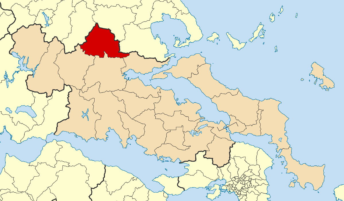 Locator map for Domokos municipality in Greek region Central Greece (2011)